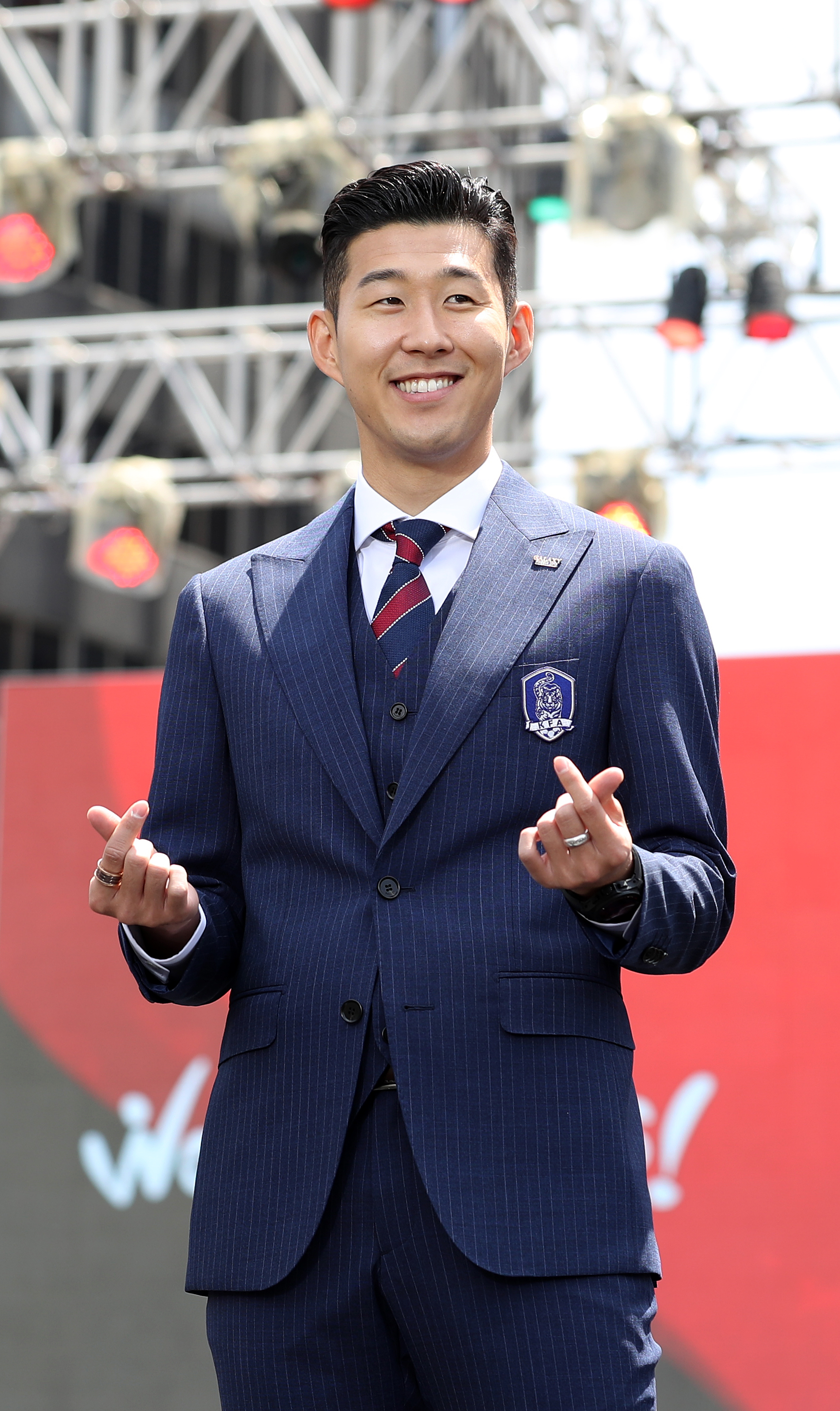 Team Korea Official Ceremony for '2018 FIFA World Cup Russia' May 21, 2018 Seoul Plaza, Jung-gu, Seoul Ministry of Culture, Sports and Tourism Korean Culture and Information Service ( Official Photographer : Jeon Han This official Republic of Korea photograph is being made available only for publication by news organizations and/or for personal printing by the subject(s) of the photograph. The photograph may not be manipulated in any way. Also, it may not be used in any type of commercial, advertisement, product or promotion that in any way suggests approval or endorsement from the government of the Republic of Korea.